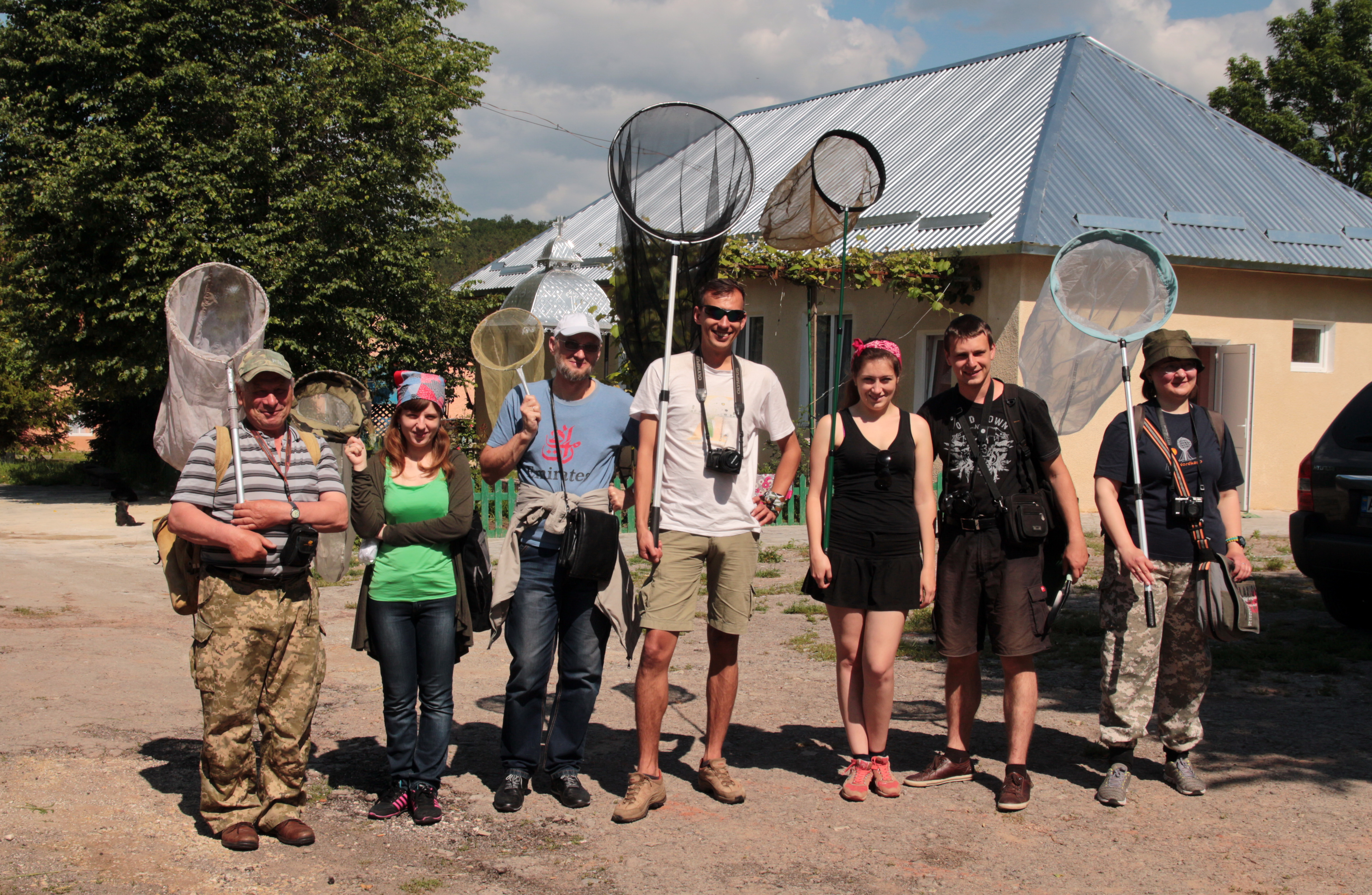 Participants of X Lviv Entomological School before excursion